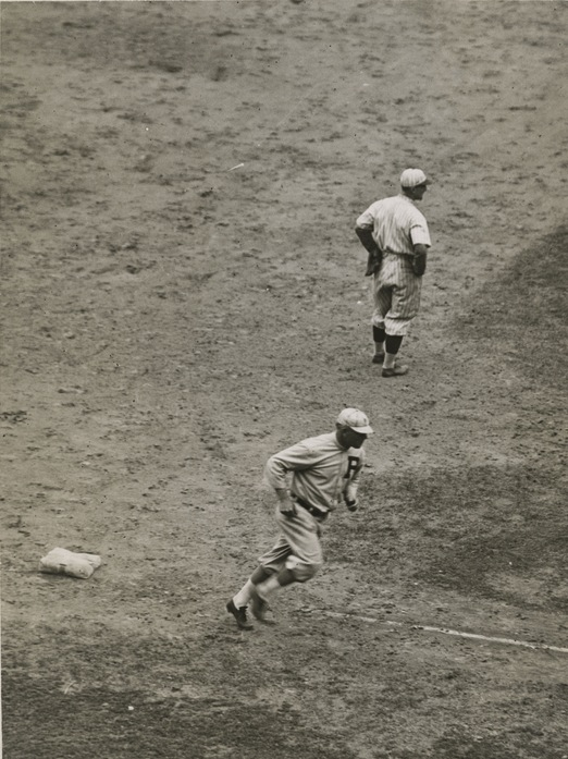 "Mgr. Cravath of the Phila. Natls. [Philadelphia Phillies] rounding 3rd after hit[t]ing a home run with two men on bases, pinch hitting for pitcher Rixey in 8th inning, two out."